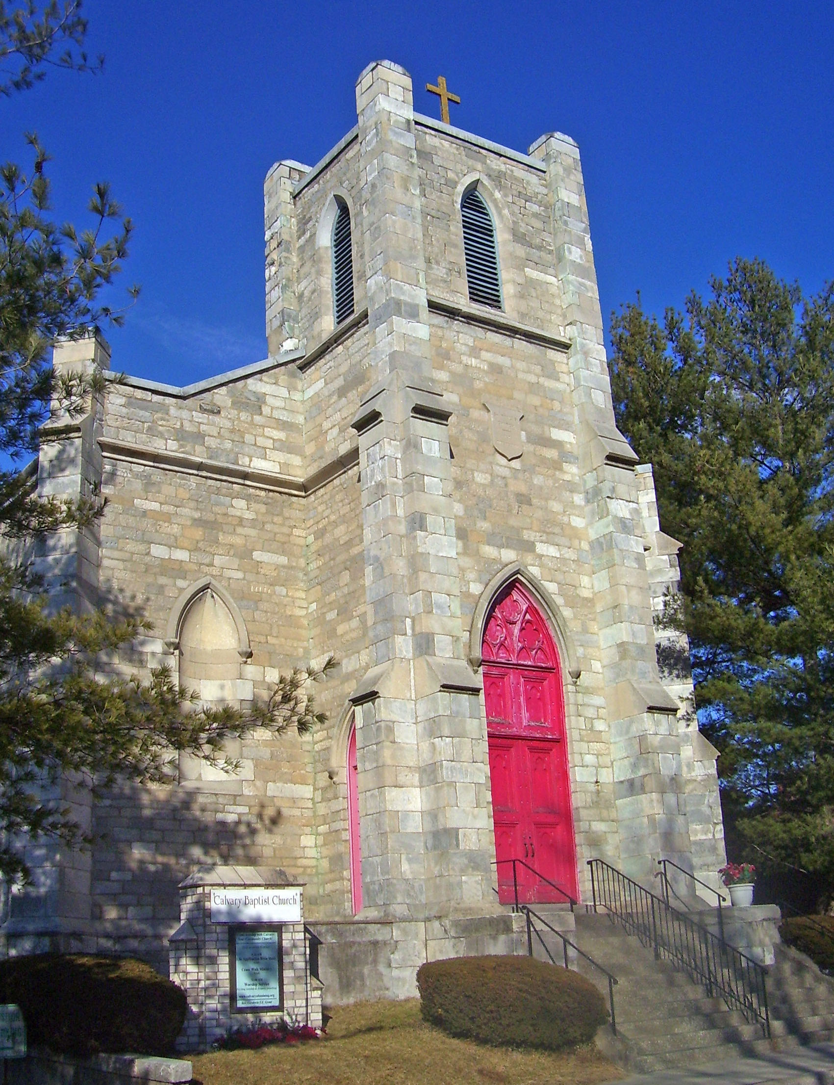 Calvary Baptist Church, formerly St. Paul's Episcopal Church, the oldest in Ossining, NY, USA